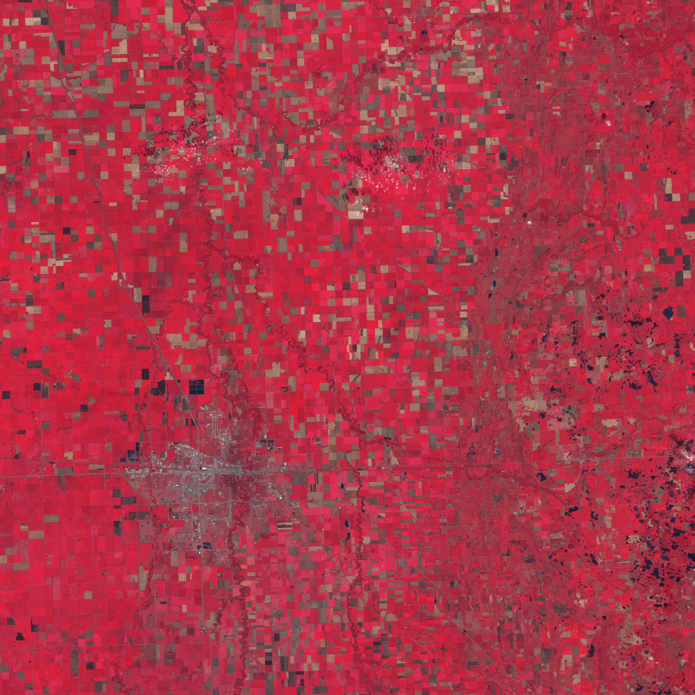 From space this 1,200 hundred-plus acres farm in north-west Minnesota looks like a patchwork quilt. Fields change hue with the season and with the alternating plots of organic wheat, soybeans, corn, alfalfa, flax, or hay. Made with infra-red light, this false colour image provides a wealth of information about crop conditions. To the untrained eye, this false-colour image appears a hodge-podge of colours without any apparent purpose. But farmers are now trained to see yellows where crops are infested, shades of red indicating crop health, black where flooding occurs, and brown where unwanted pesticides land on chemical-free crops.